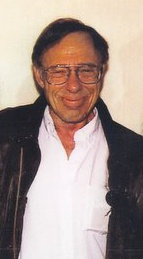 Science fiction author Robert Sheckley photographed in the mid-1990s.